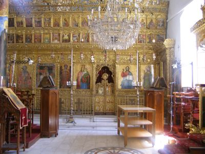 Inside view of the Agios Savvas church in Nicosia, Cyprus - southern (Greek) part